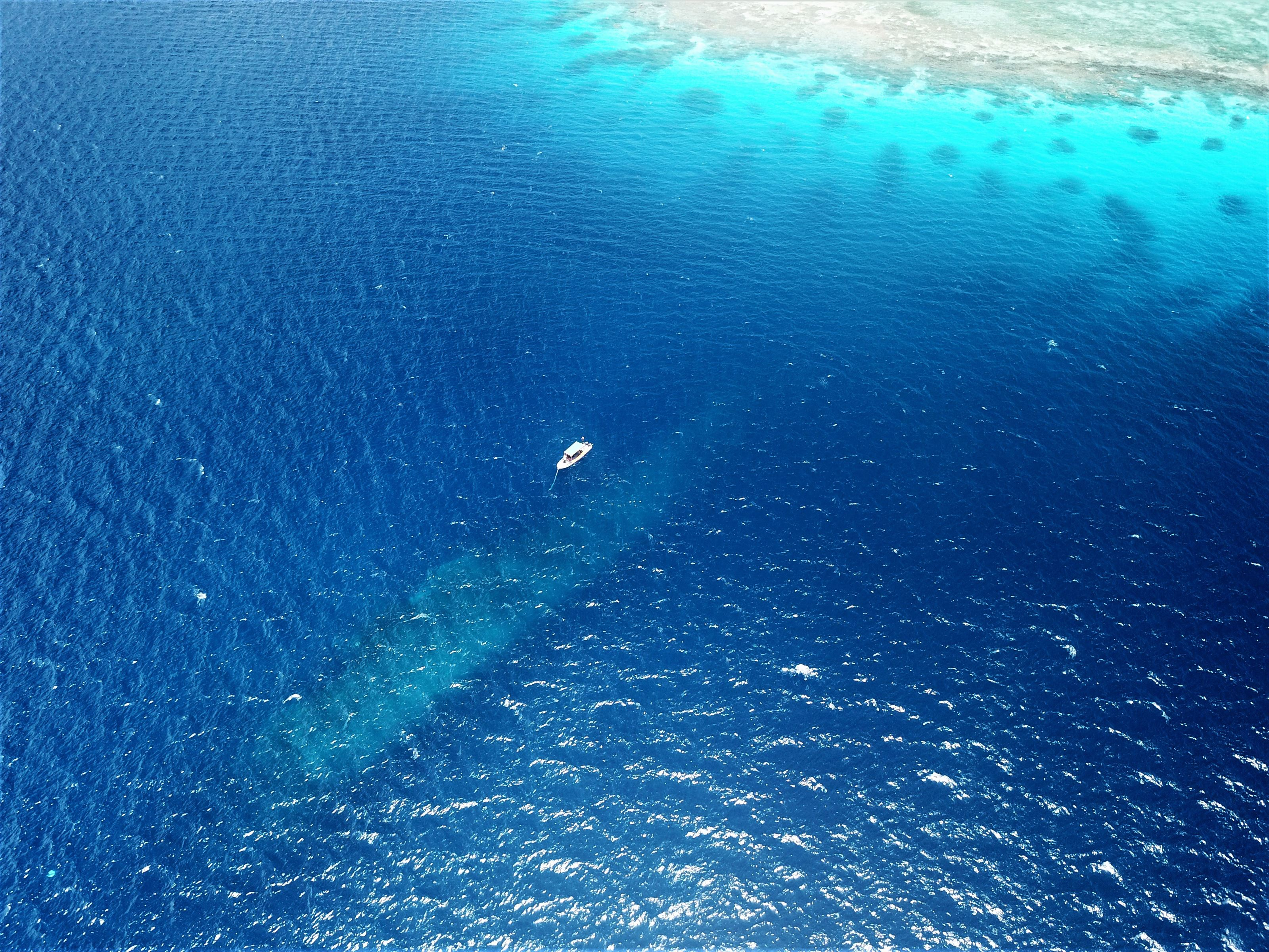 Rio de Janeiro maru